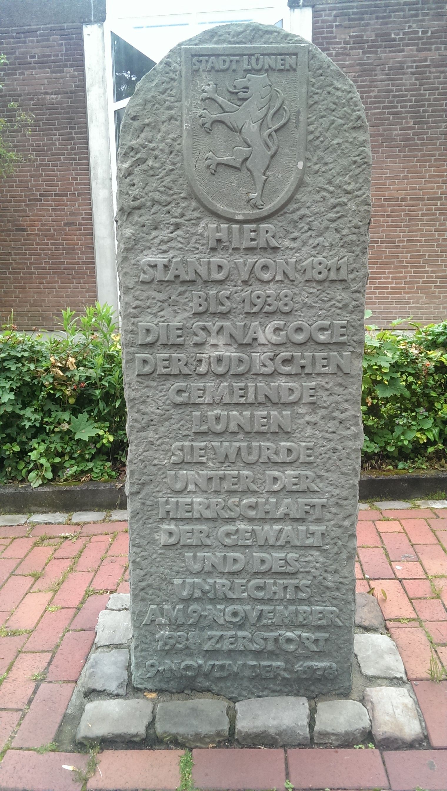 Memorial stone of the demolished synagogue in Lünen, Germany